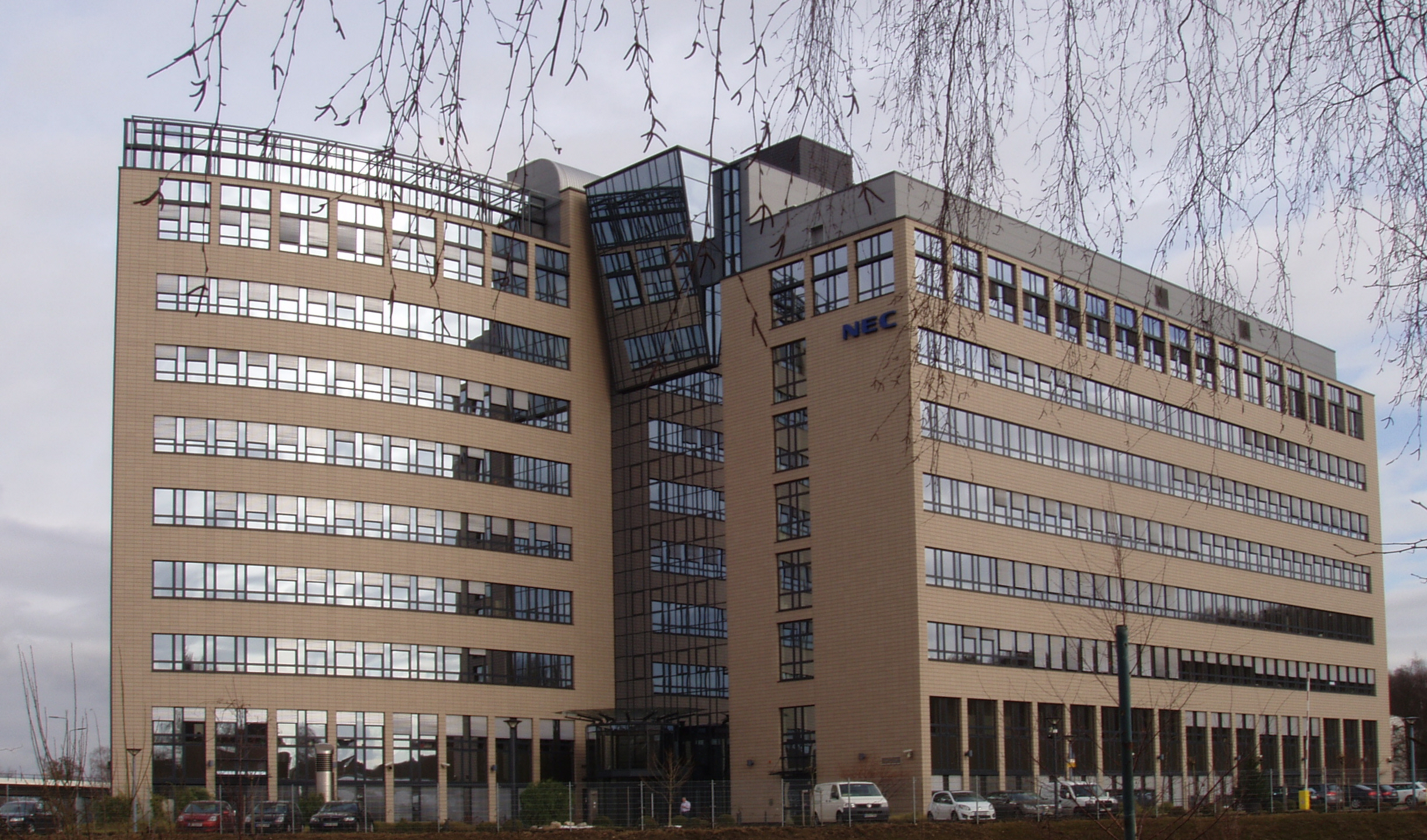 NEC Electronics Europe, Headquarter in Düsseldorf, Arcadiastr. 10